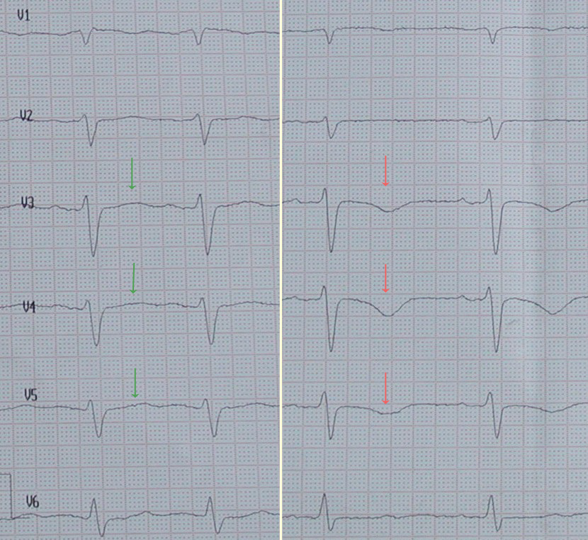 EKG mit Negativierung der T-Wellen (rote Pfeile) 4 Std. nach Schmerzbeginn (re. Teil) ecg with negative t-waves (red arrows) 4 hours after begin of symptoms (right part)